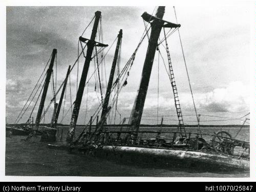 Northern Territory Library PH0311-0023 Ron Urquhart Collection. A half submerged vessel, probably the Royal Australain Navy coal hulk 'Kelat'.